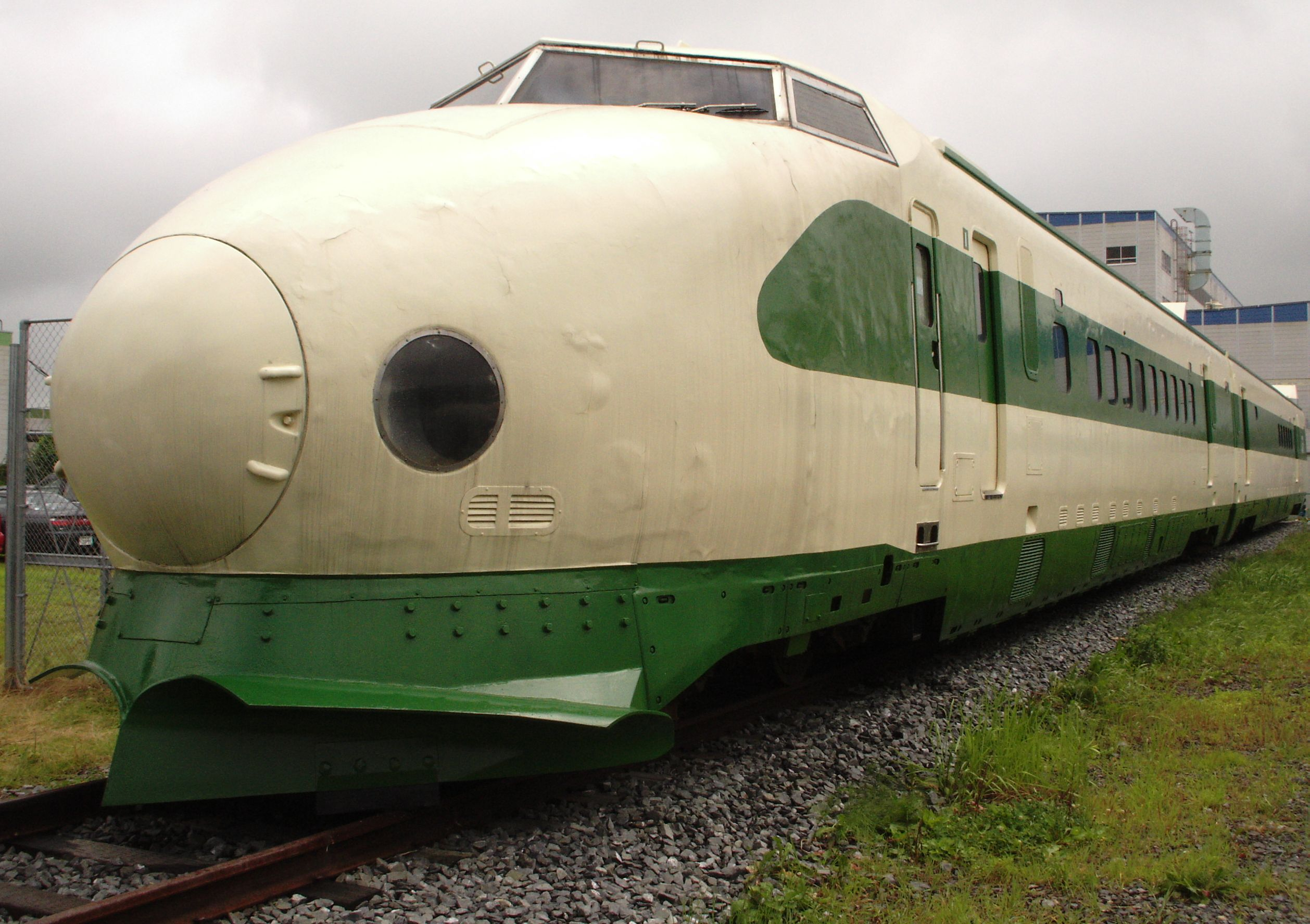 Preserved 200 series car 221-1 at Sendai General Shinkansen Depot, 29 July 2006